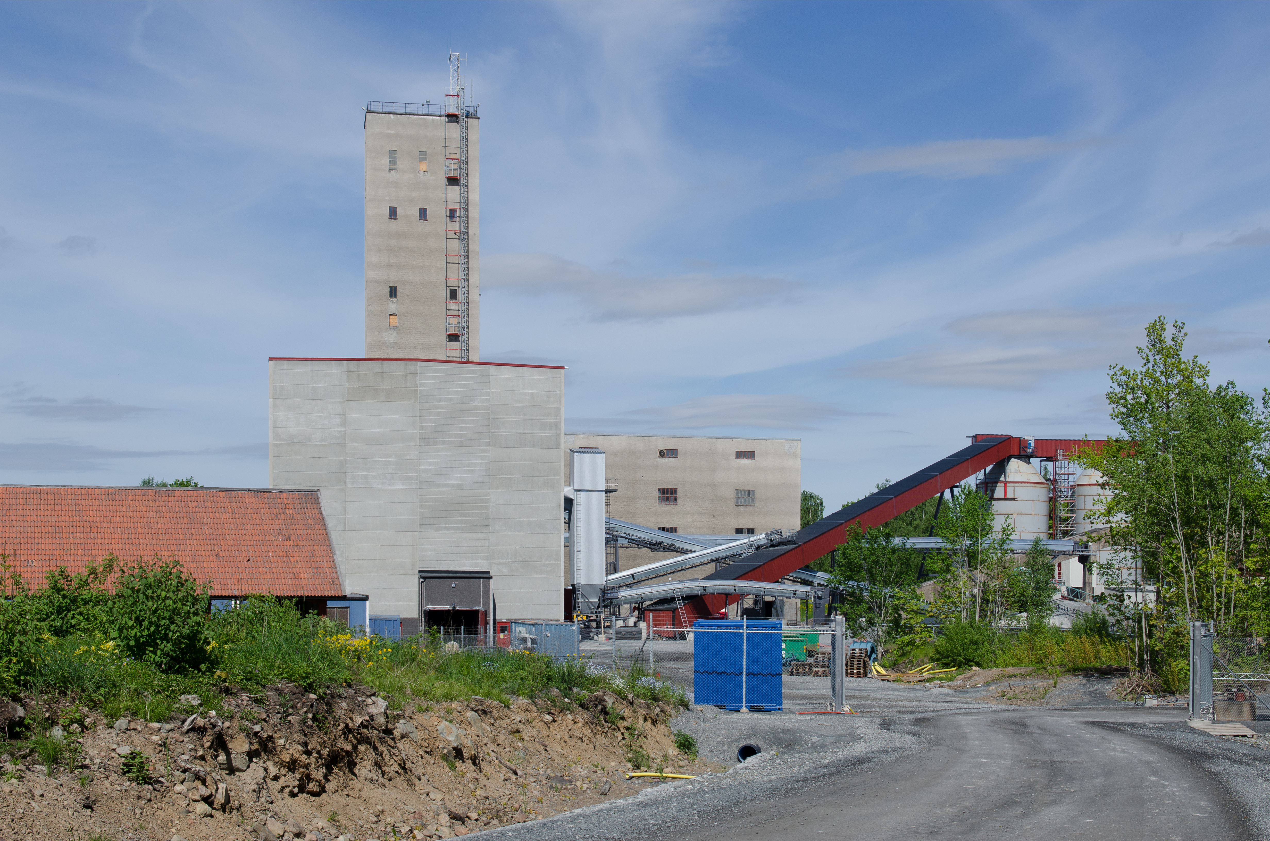 The Dannemora mine at Dannemora, Sweden was one of the most important iron ore mines in Sweden. The mine was closed by its owners SSAB in 1992 but re-open in 2012. It may have been open since the 13th century, but the first documentary reference was in 1481.